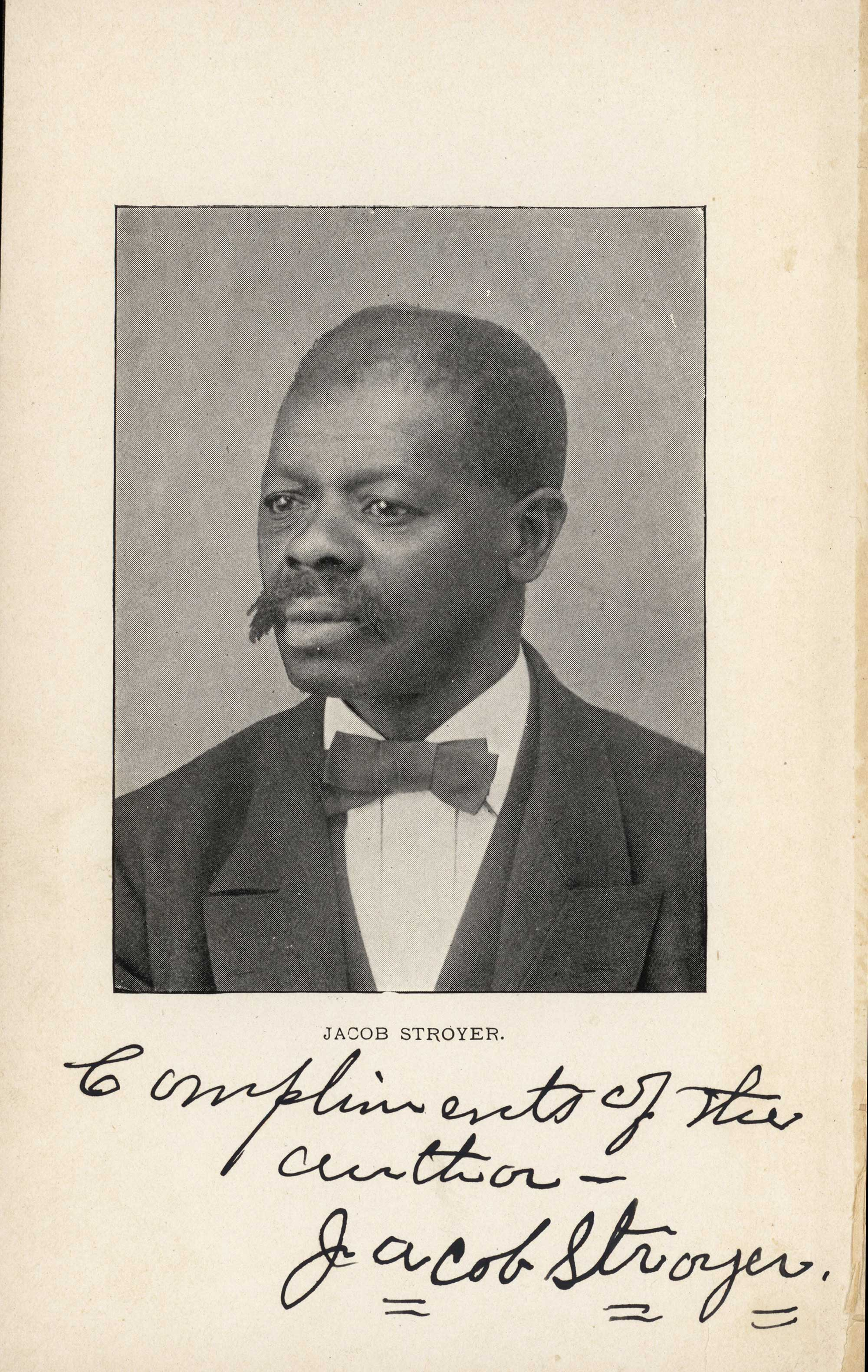 Inscribed frontispiece of the 1898 book "My Life in the South" by Jacob Stroyer (1846 - February 7, 1908). Photo via University of Delaware Library.